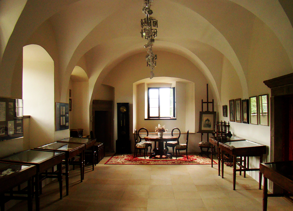 Szymbark Castle (Lesser Poland)